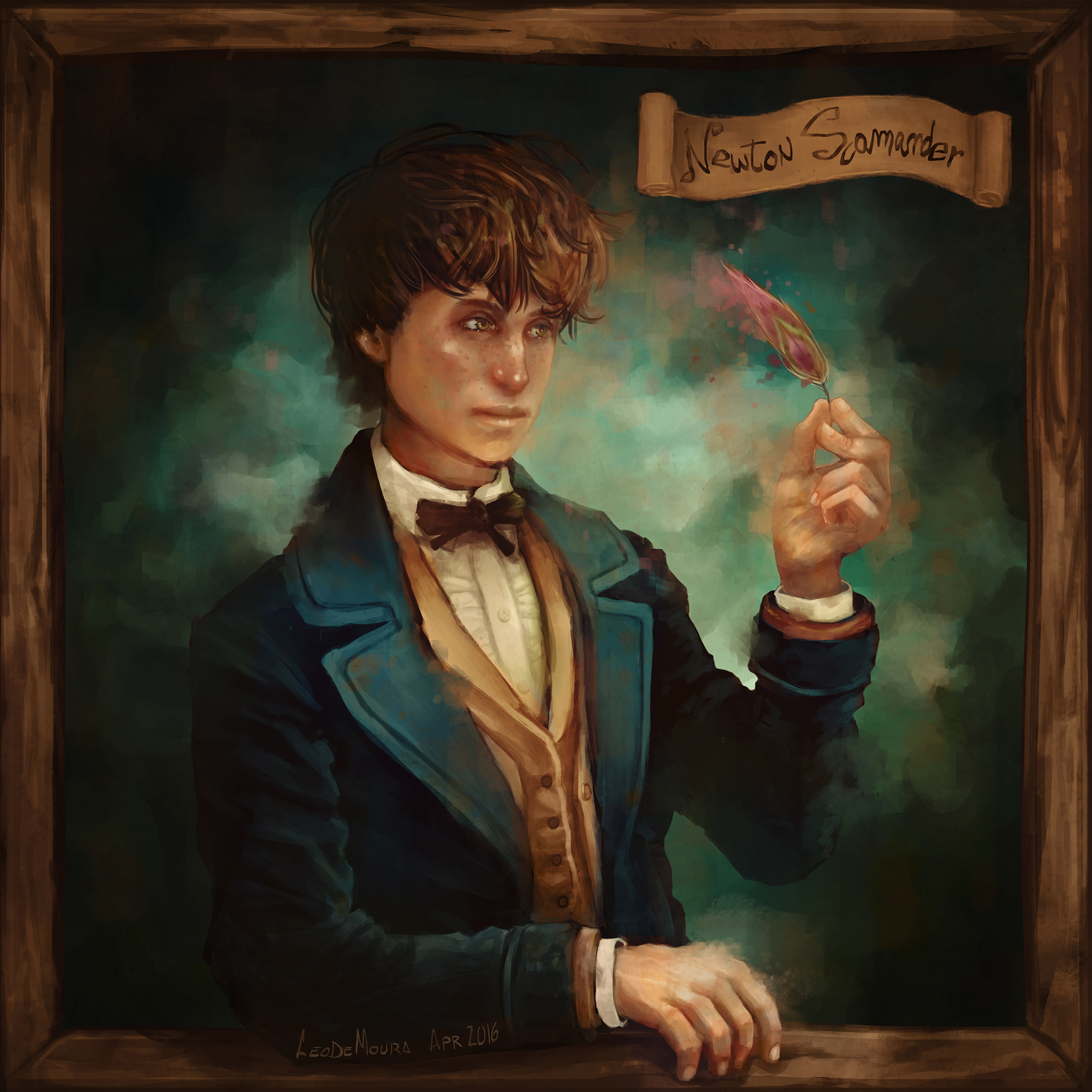 Newt Scamander (Fantastic Beasts) Fanart by Leo de Moura